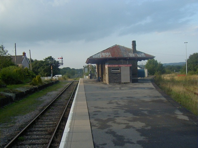 Pantyffynnon railway station on the Heart of Wales Line.